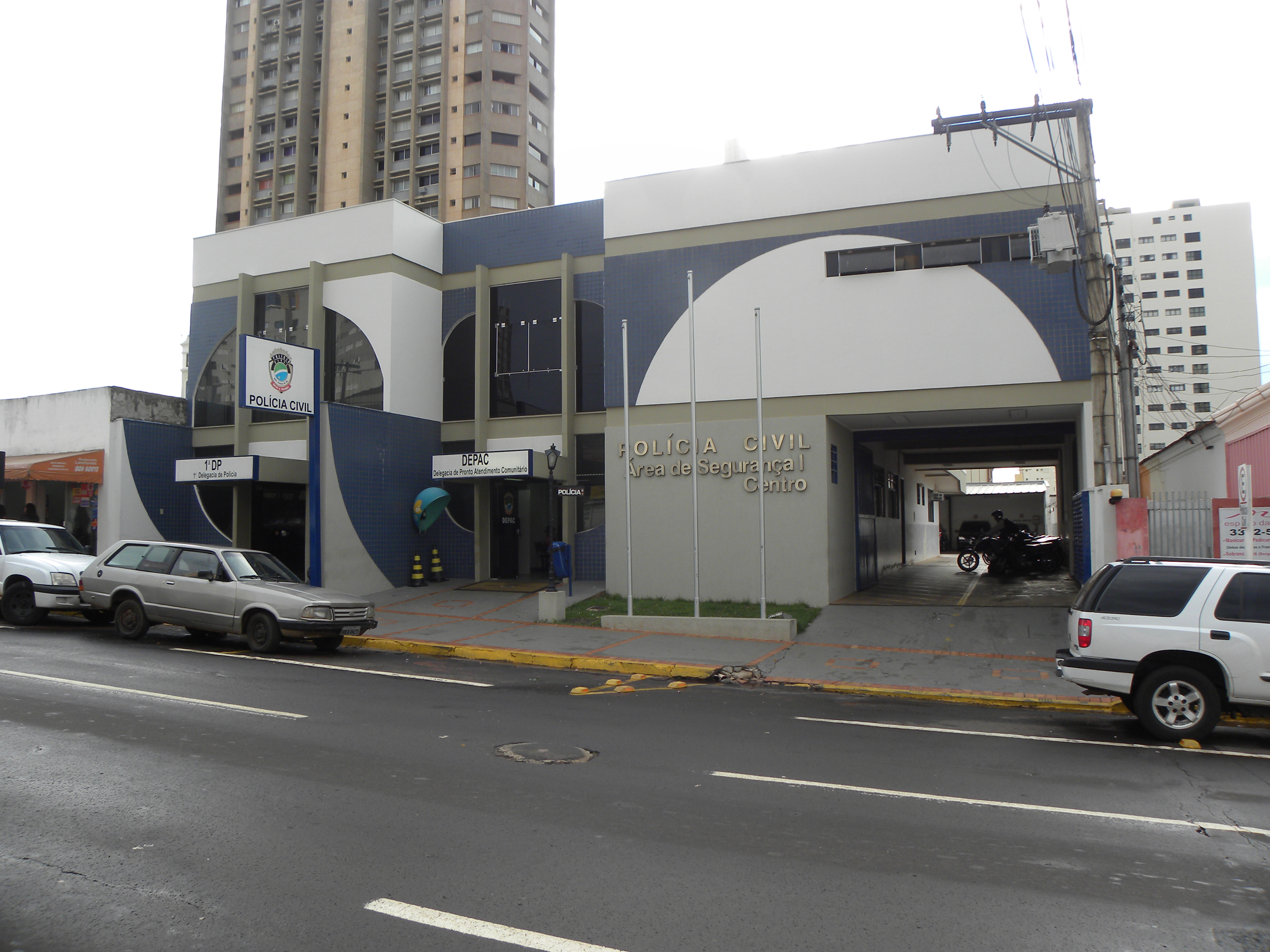 Police station - Mato Grosso do Sul Civil Police - Brazil